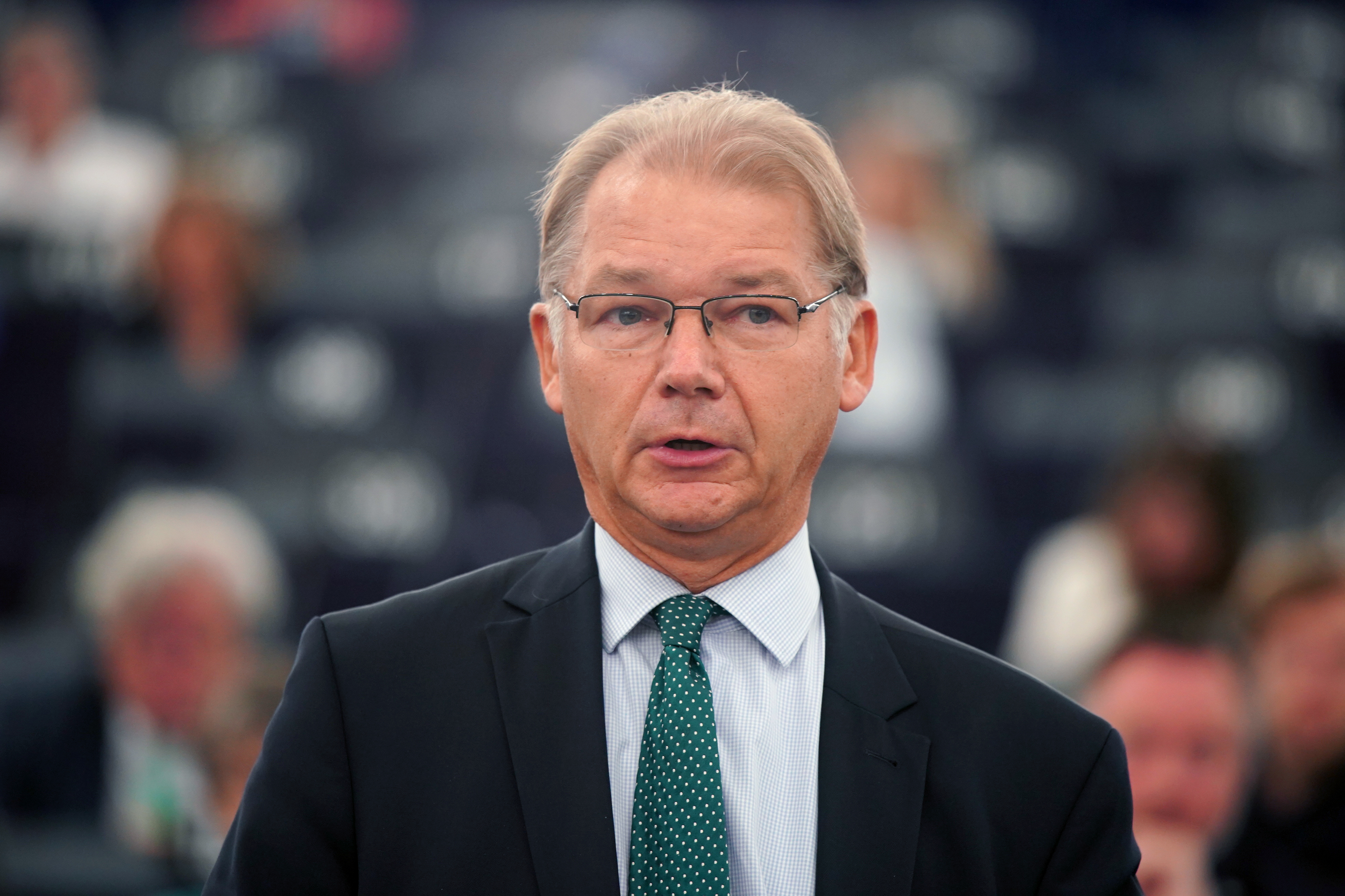 Read more: This photo is free to use under Creative Commons license CC-BY-4.0 and must be credited: "CC-BY-4.0: © European Union 2019 – Source: EP". No model release form if applicable. For bigger HR files please contact: webcom-flickr(AT)